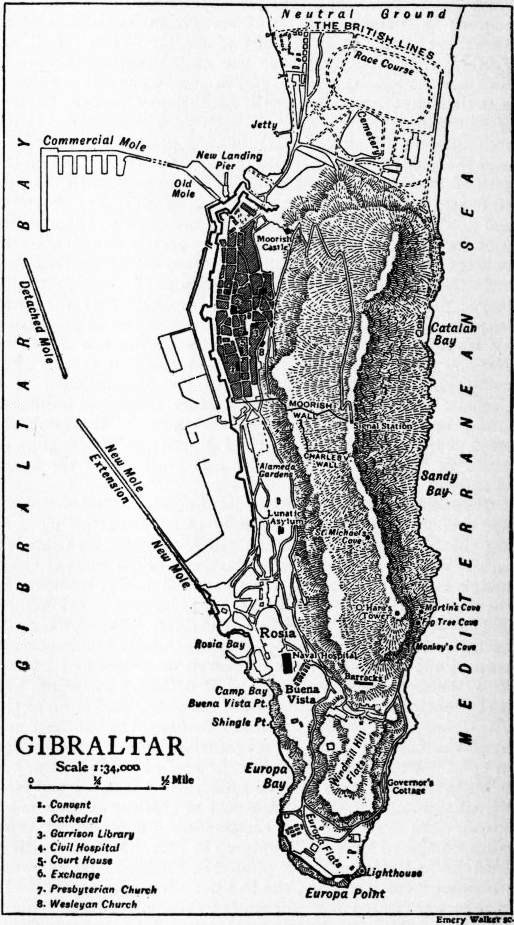 Map of Gibraltar